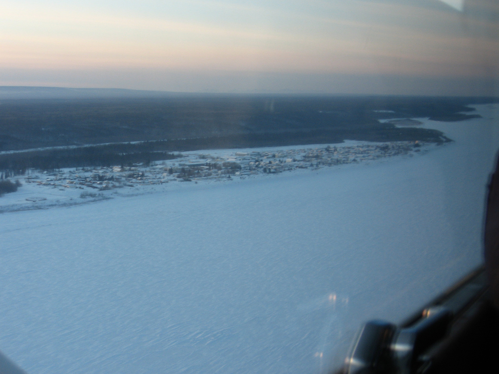 Fort Simpson from the air